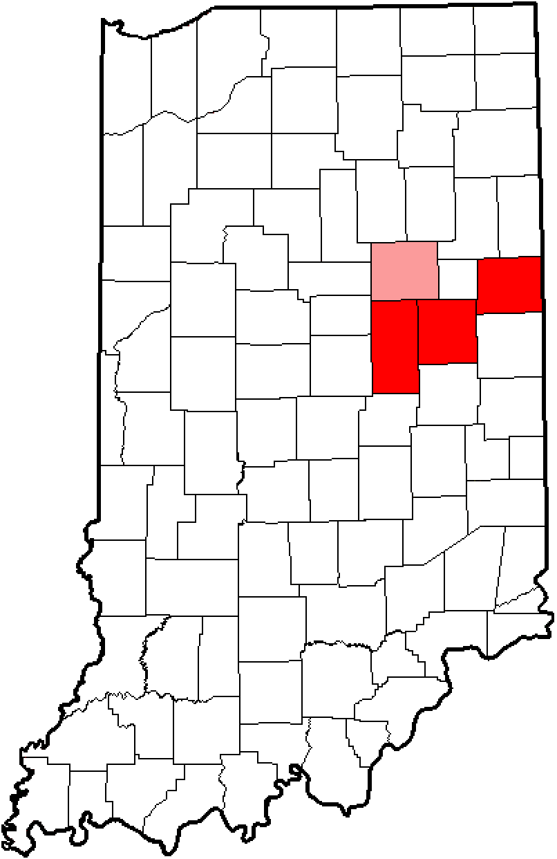 The Classic Athletic Conference within Indiana